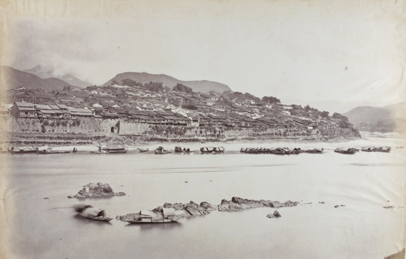 Yen-ping City and the Min River, in Fujian, China